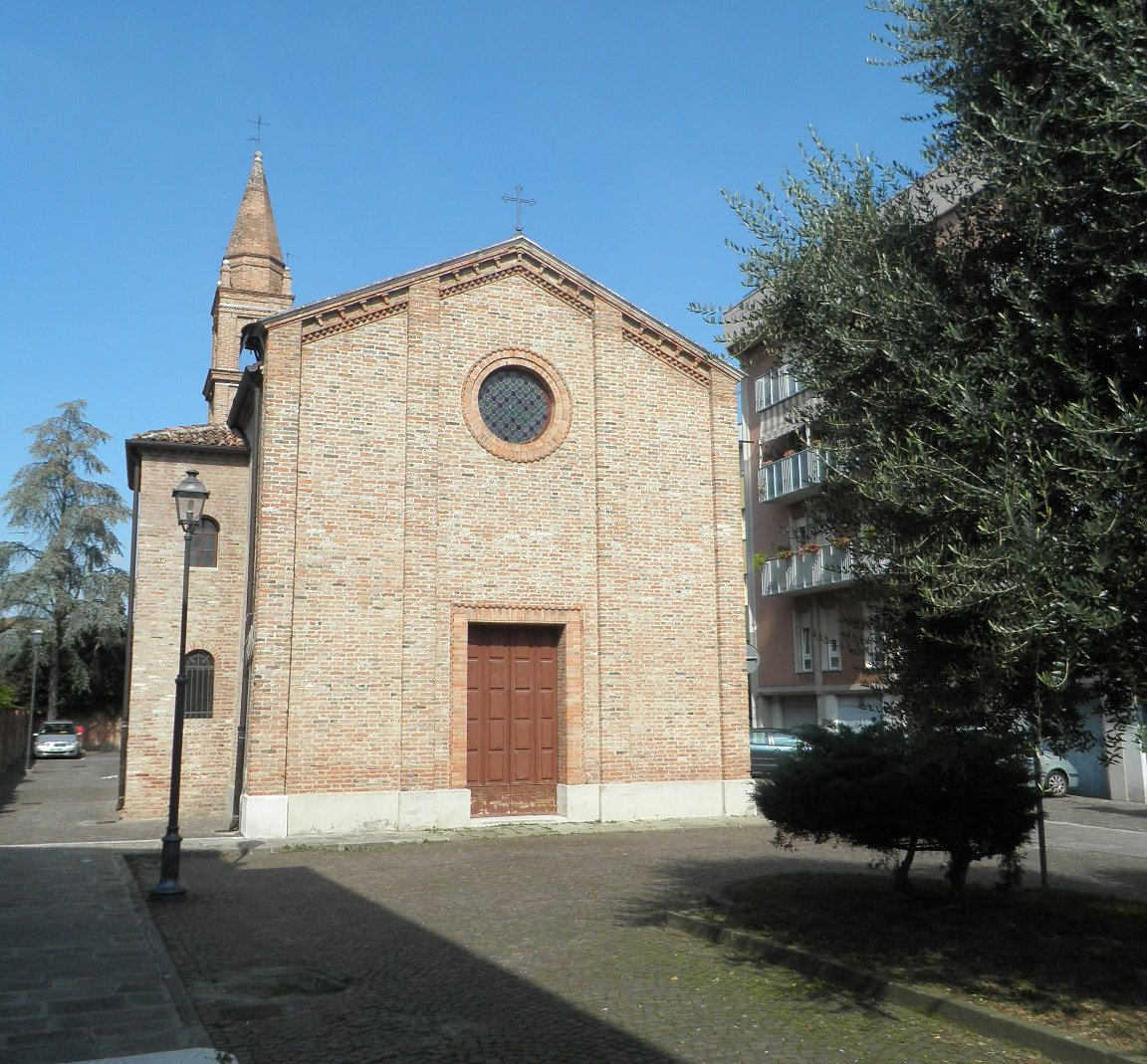 This is the church of Saint Mary and Saint Anne in Lendinara (Rovigo) in the region of Veneto in the northern Italy